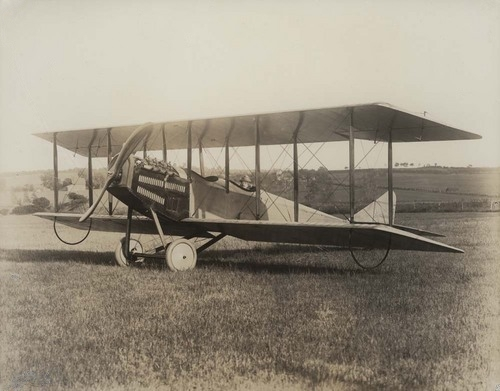 Philip Billard in Albin K. Longren's Number 6 Model G biplane